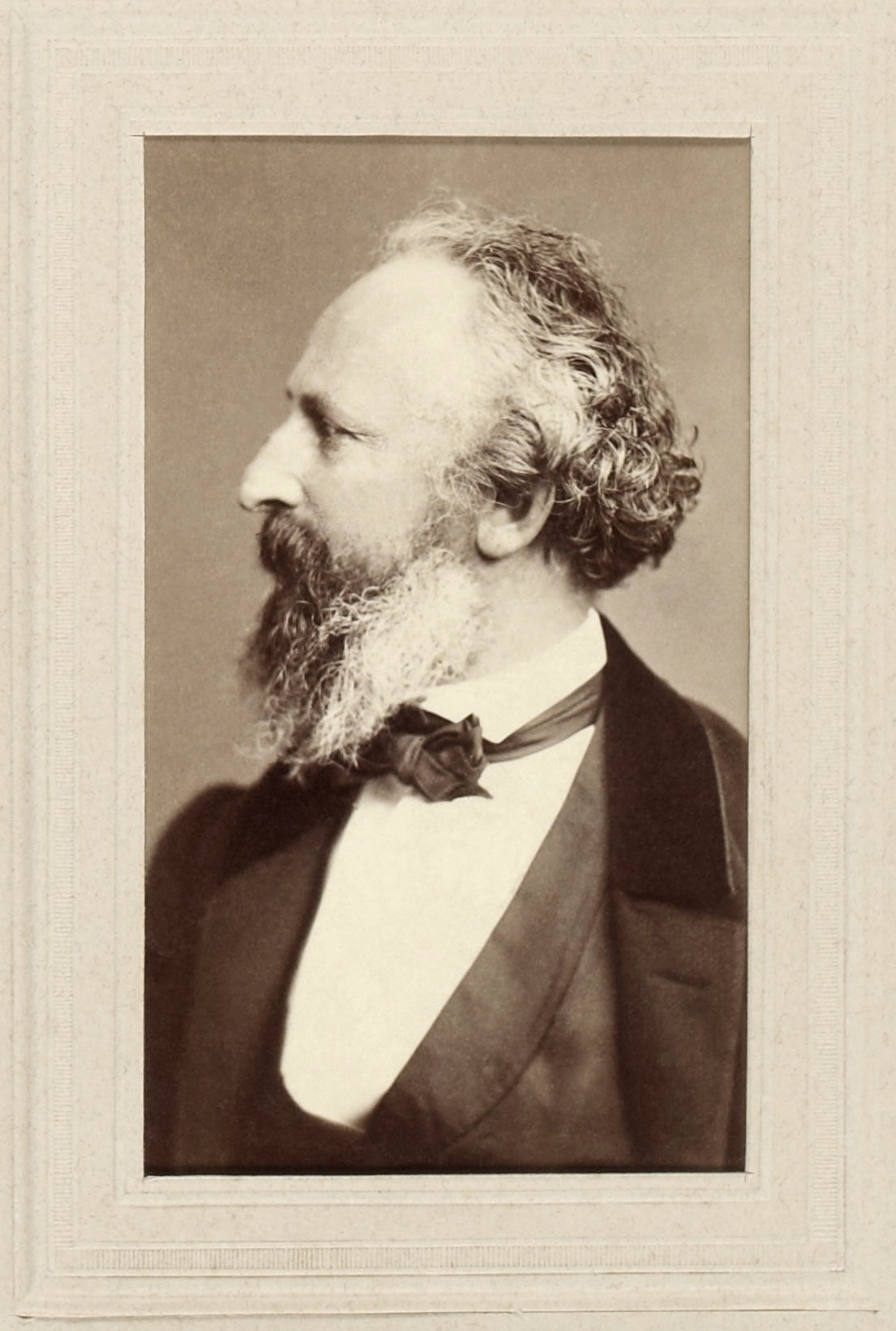 Carl Steffeck (1818-1890), german painter.